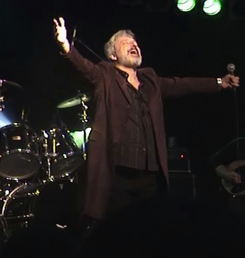 Ebi (Iranian artist), Live in Montreal, Canada.